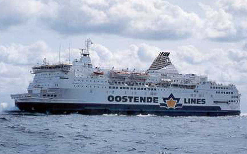 The M/V Prins Filip in rough seas